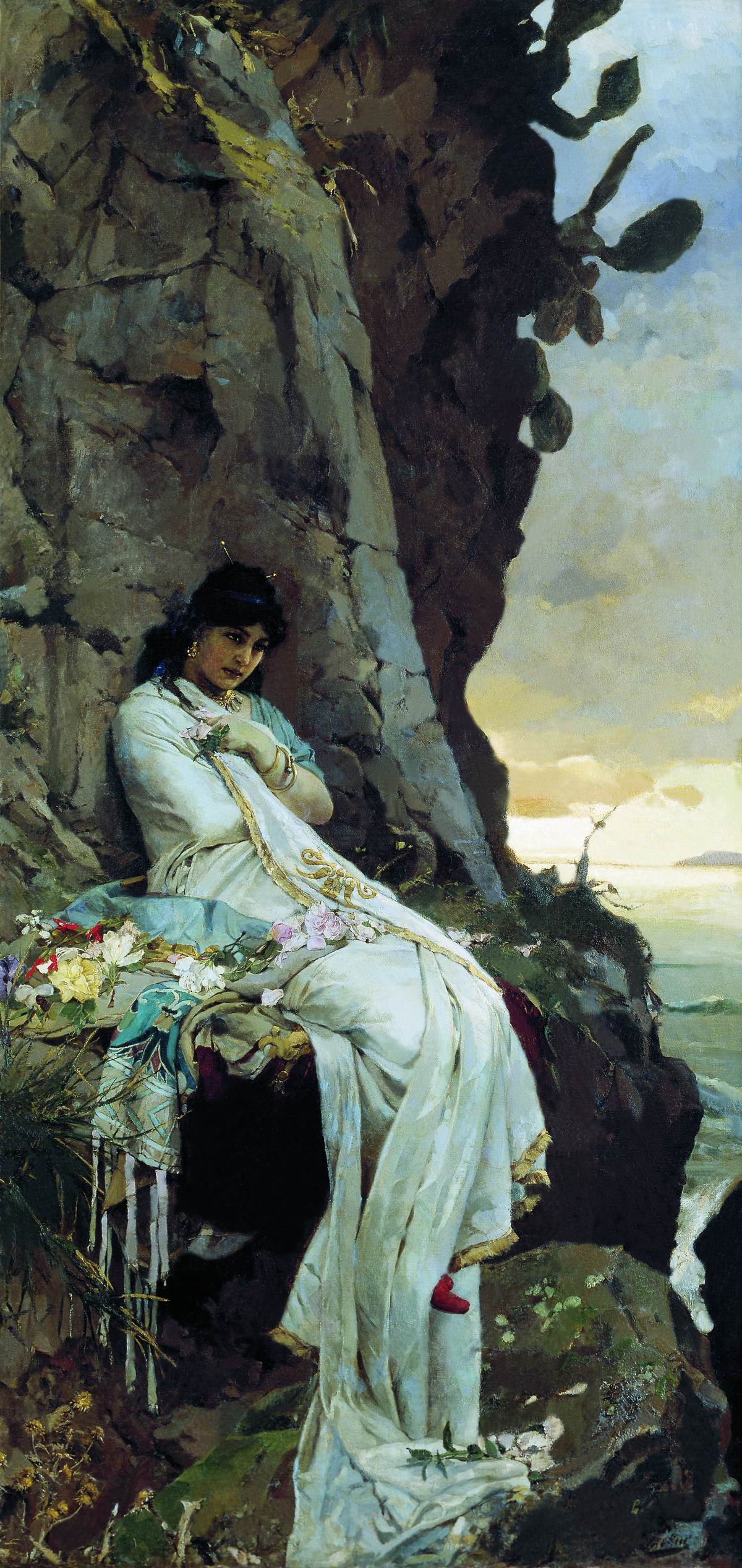 Julia, daughter of Augustus, in exile at Ventotene.label QS:Len,"Julia, daughter of Augustus, in exile at Ventotene." label QS:Lru,"Юлия в ссылке." label QS:Lit,"Giulia, figlia di Augusto, in esilio a Ventotene."